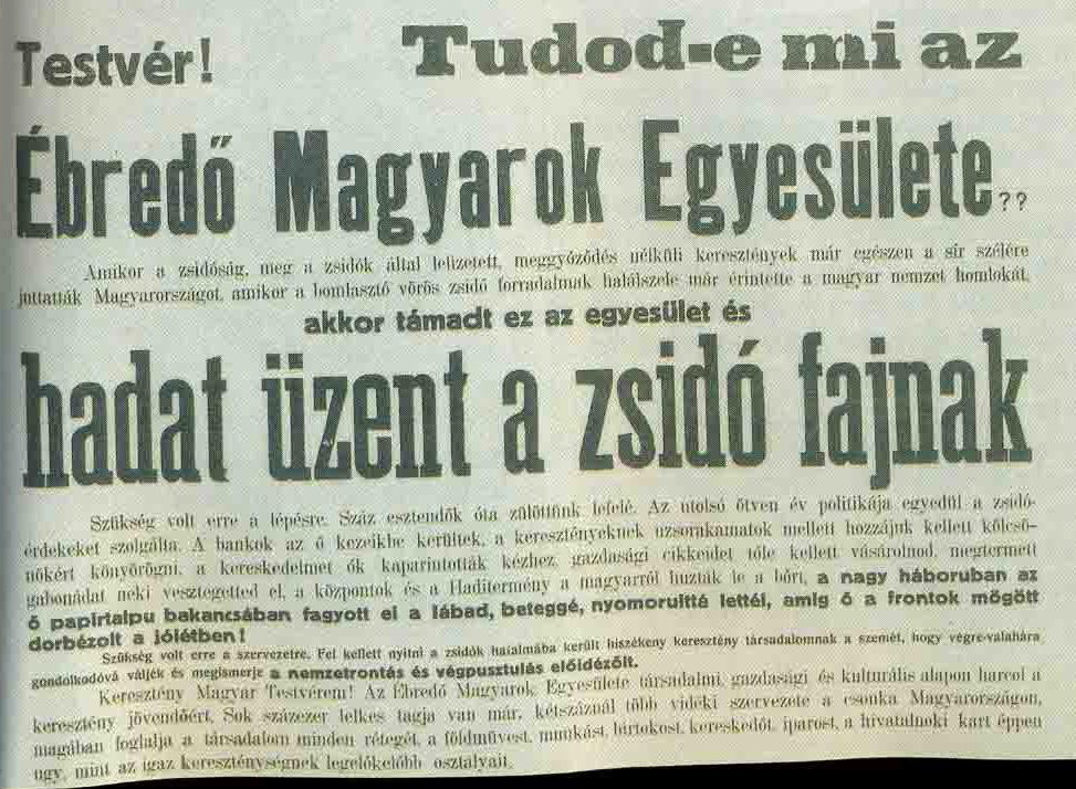 ÉME's handout from 1920's